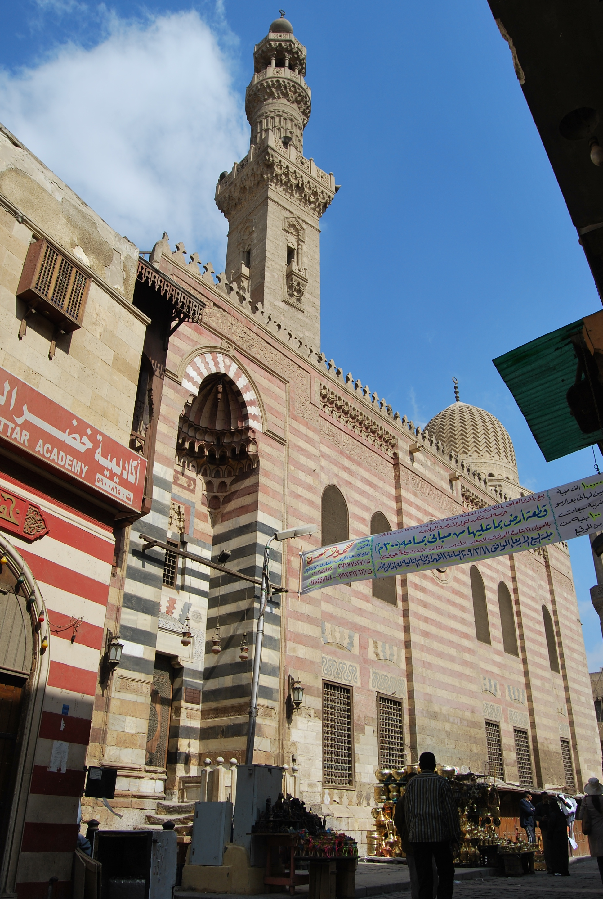 Sultan Ashref Al-Barsbay Mosque in Khan-e-Khalili of Cairo.